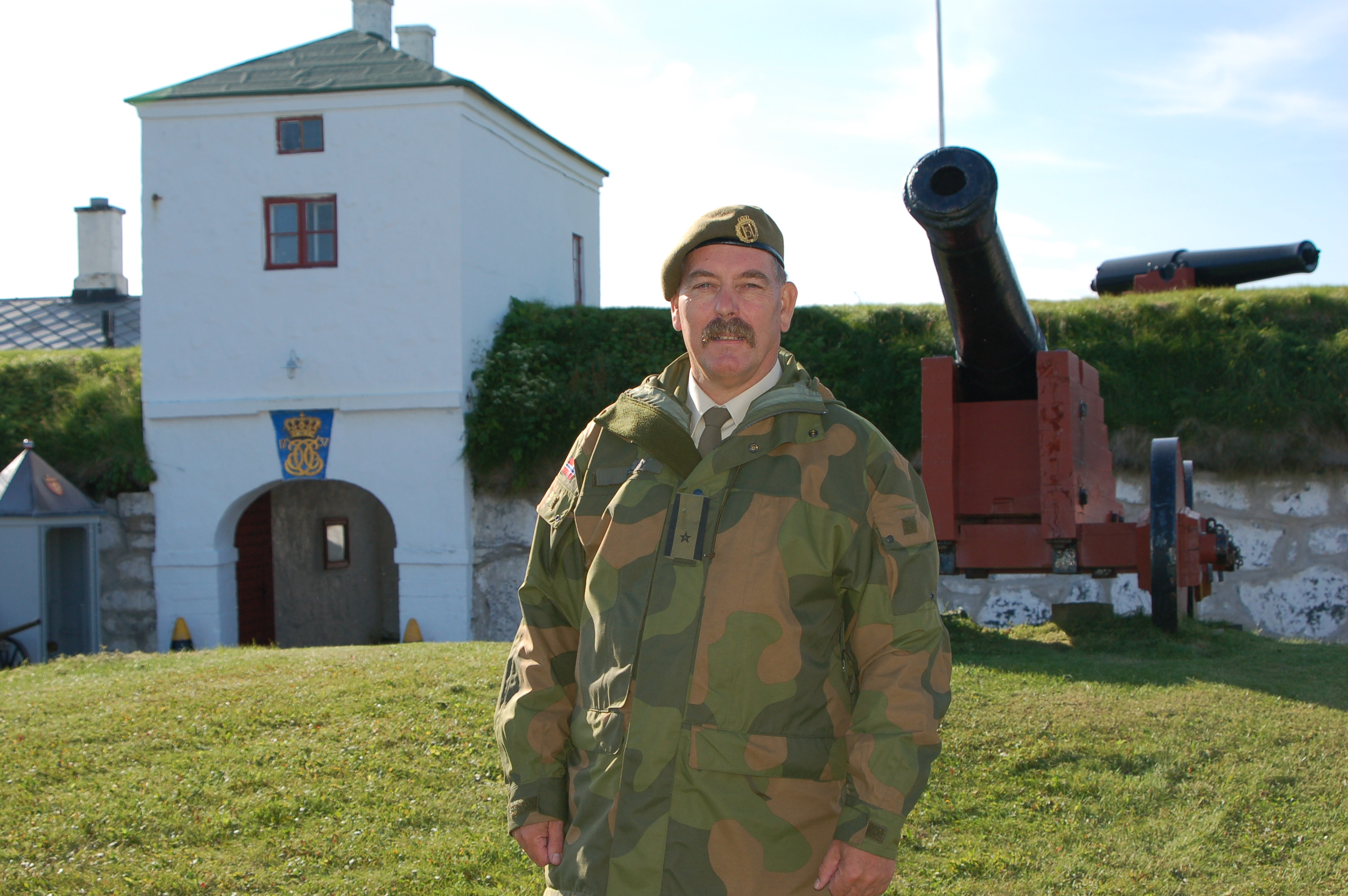 The 44. commandant Tor Arild Melby